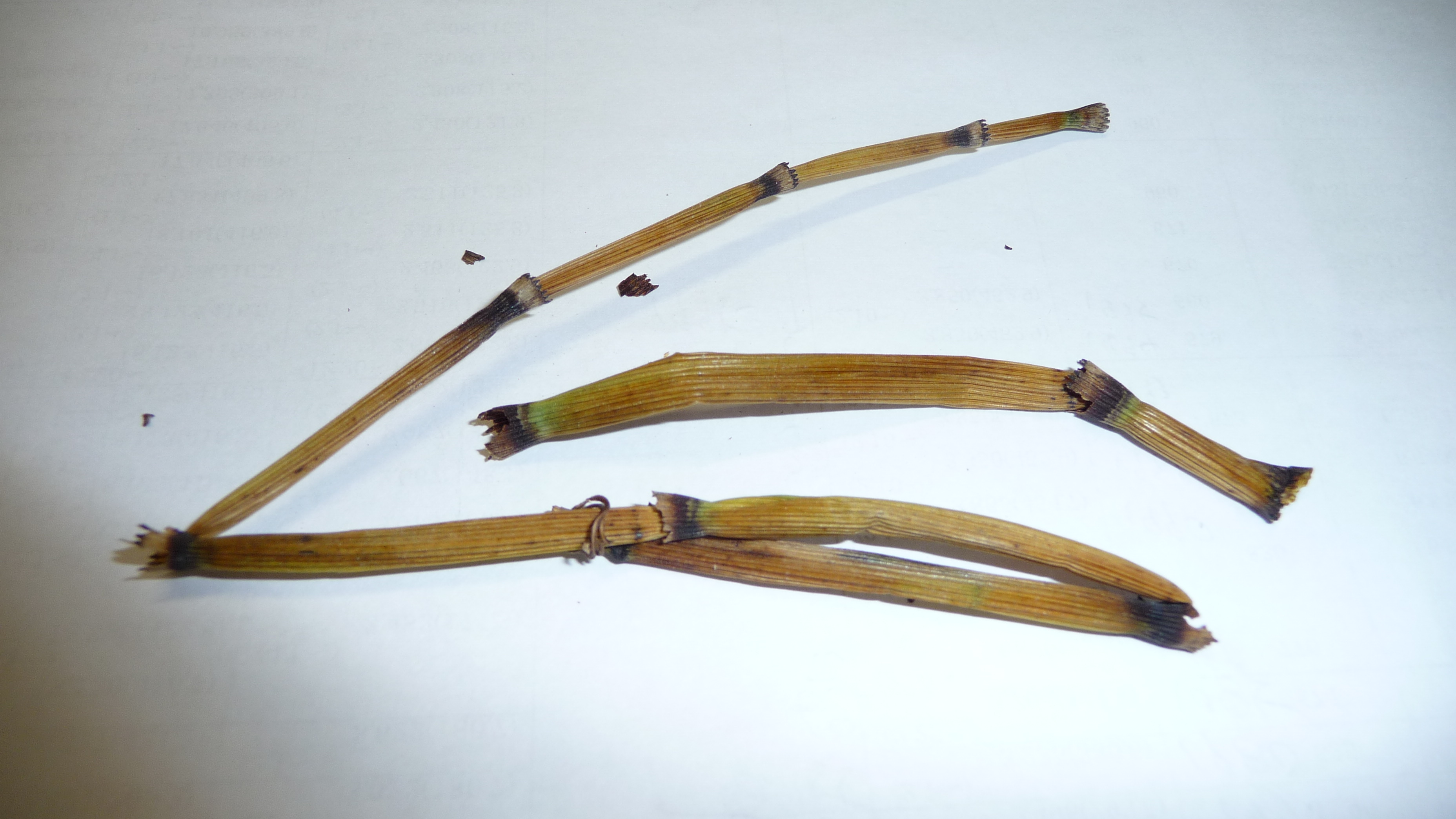 Boil and dried Equisetum hyemale (In Japan, use as traditional polishing material like fine grits class sandpaper)